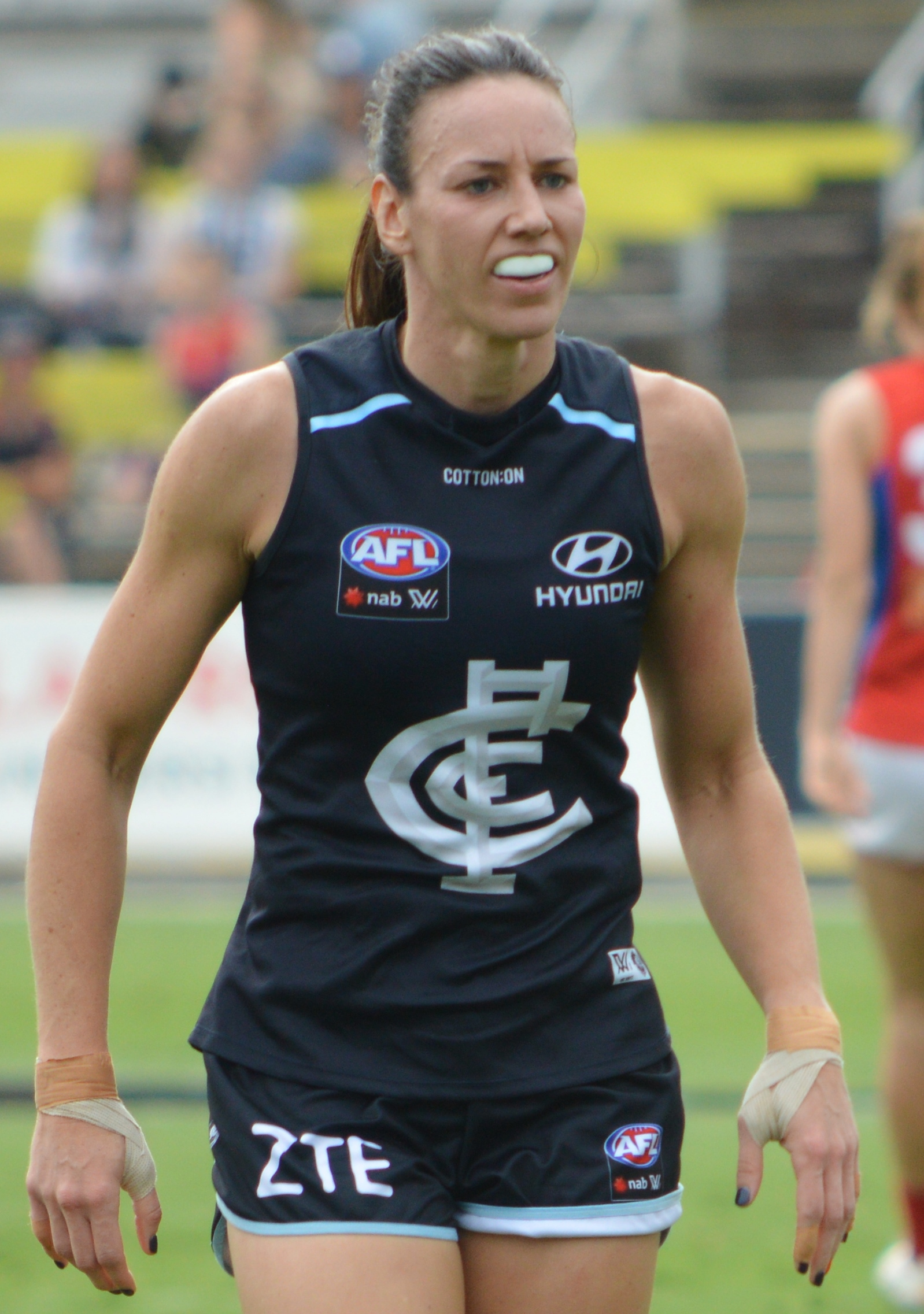 Alison Downie during the round 6, 2018 AFL Women's match between Carlton and Melbourne.